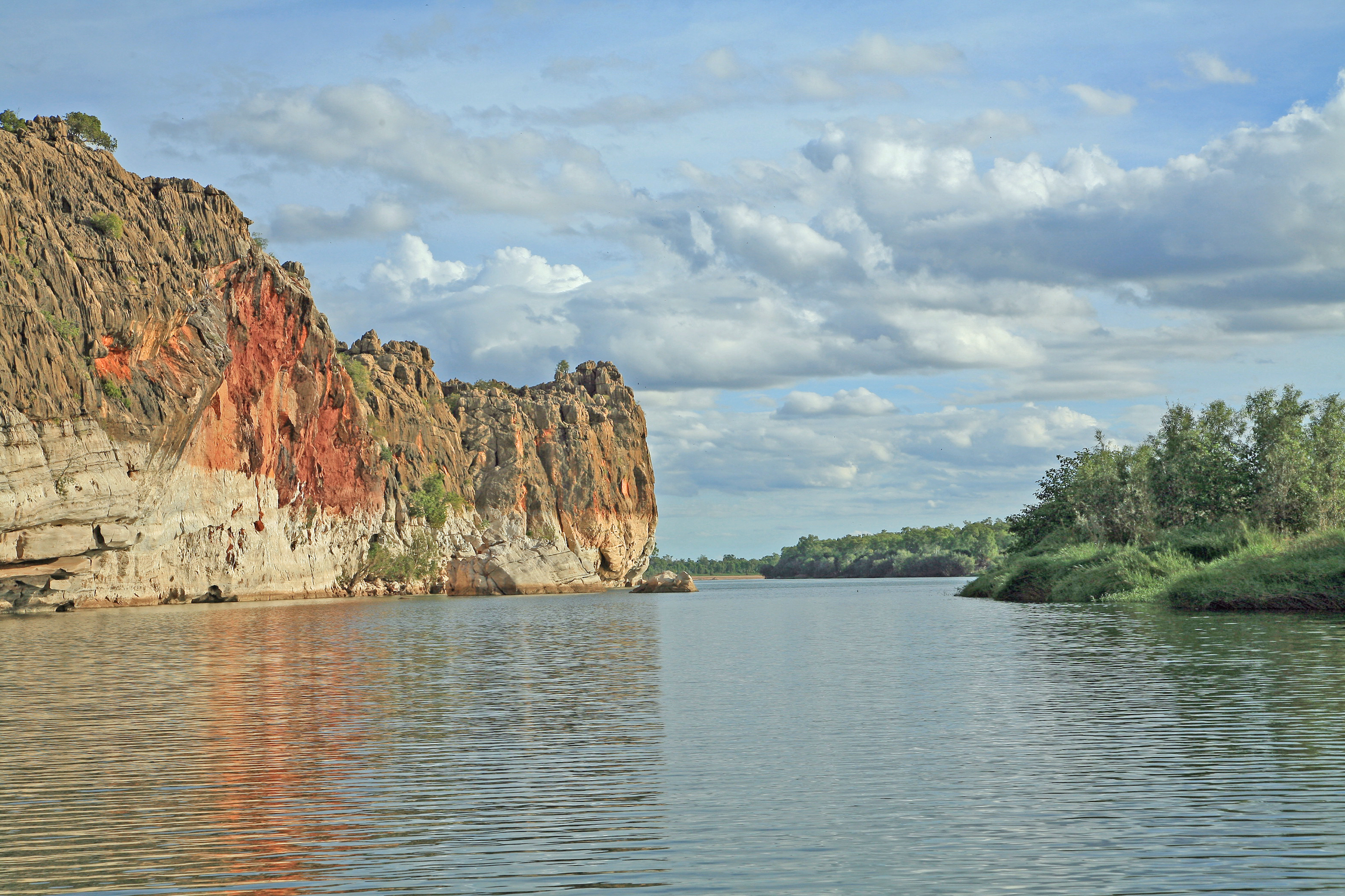 Fitzroy River / Geikie Gorge (National Park), a gorge with 50 to 100-meter-high limestone walls. The river can rise more than 16 meters in the rainy season (the height is indicated by the light streaks on the rock faces). The national park is located in the Kimberley region of Western Australia.